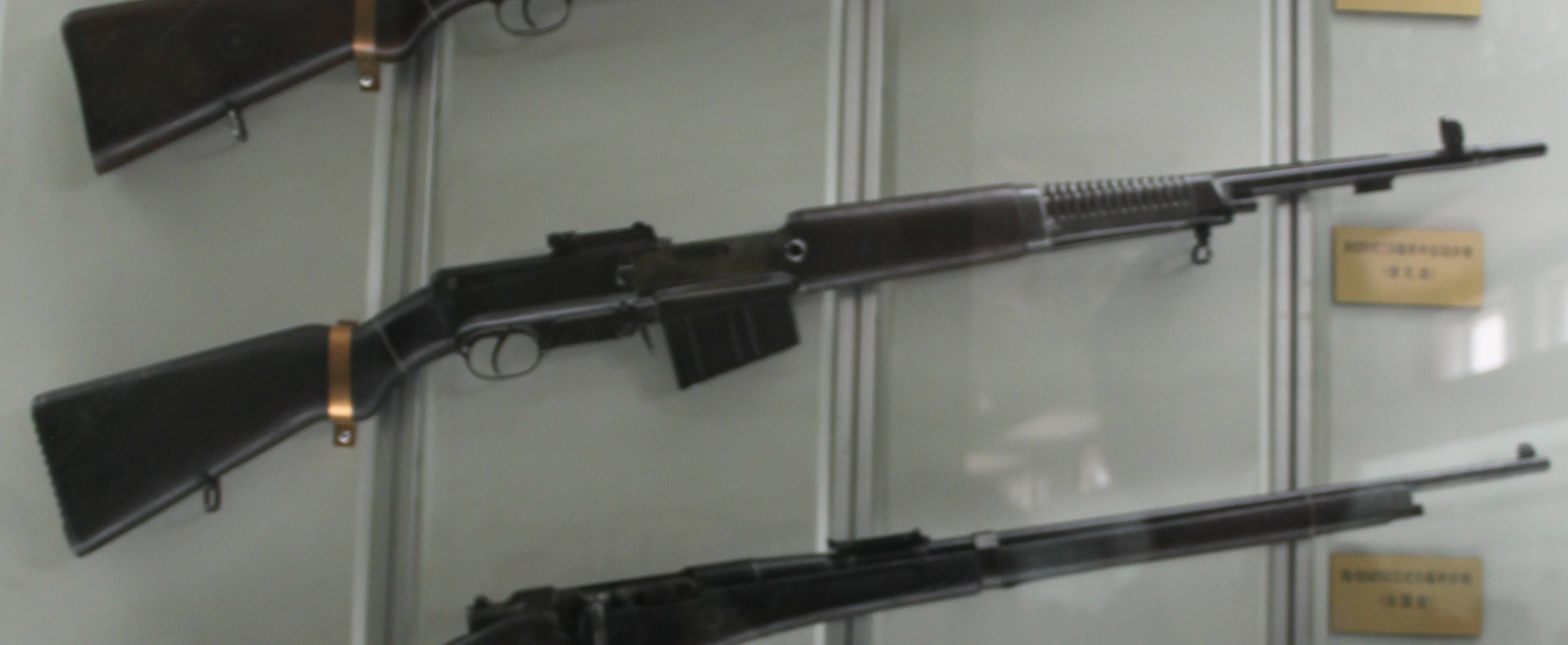 ZH-29(chinese museums)